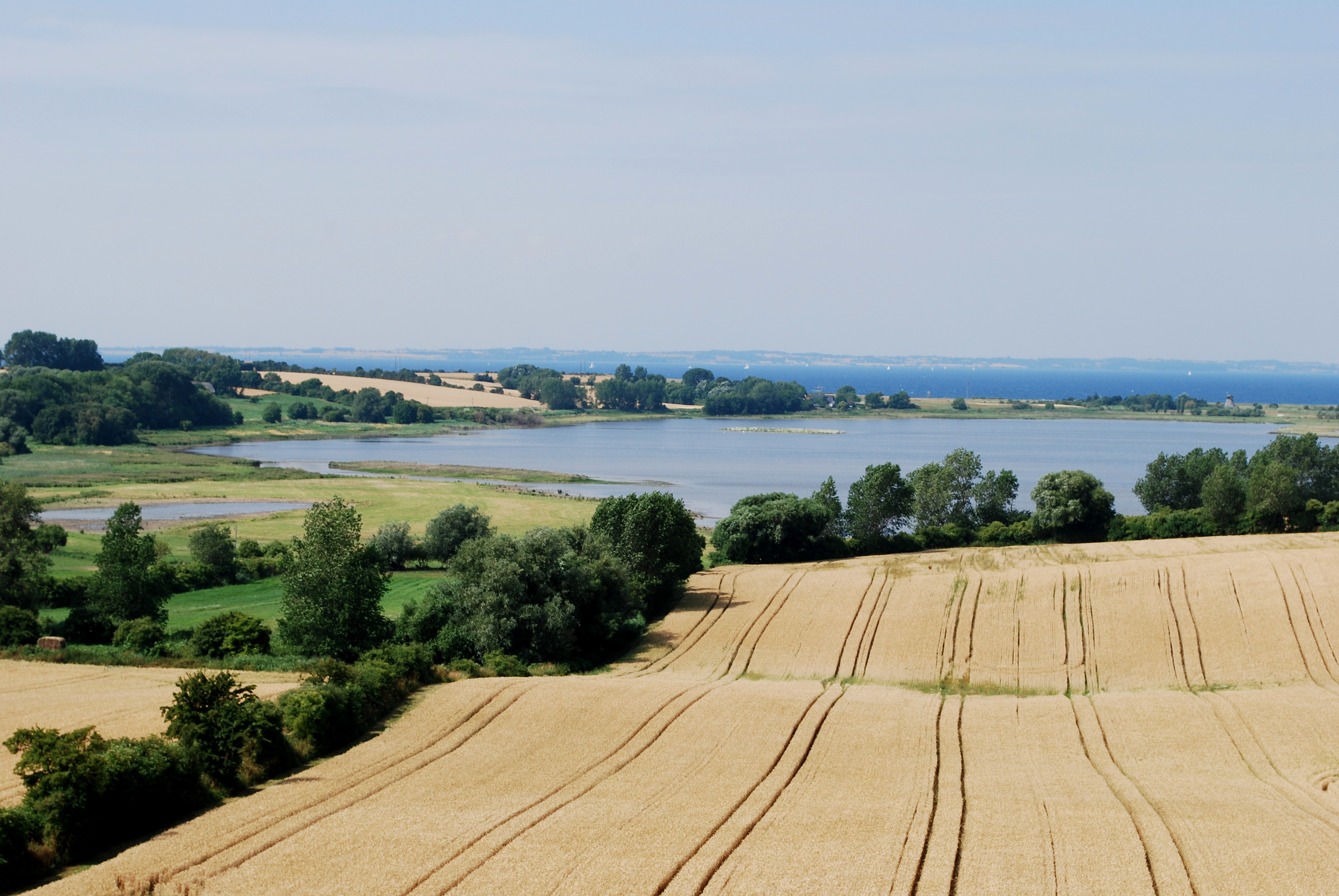 Vitsø Nor, søby, Ærø, Denmark